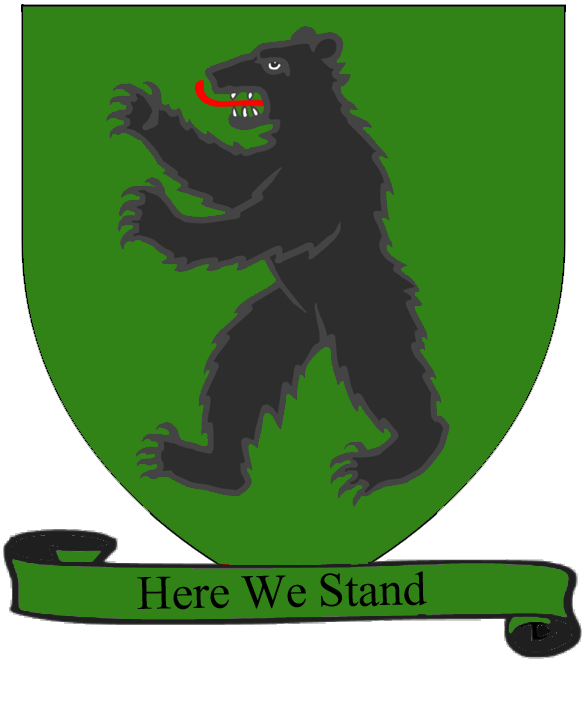 A fictional coat of arms. The coat of arms of House Mormont.